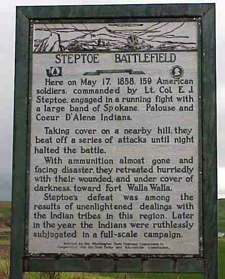 Photo of the marker at the Steptoe Battlefield memorial near Rosalia, Washington.